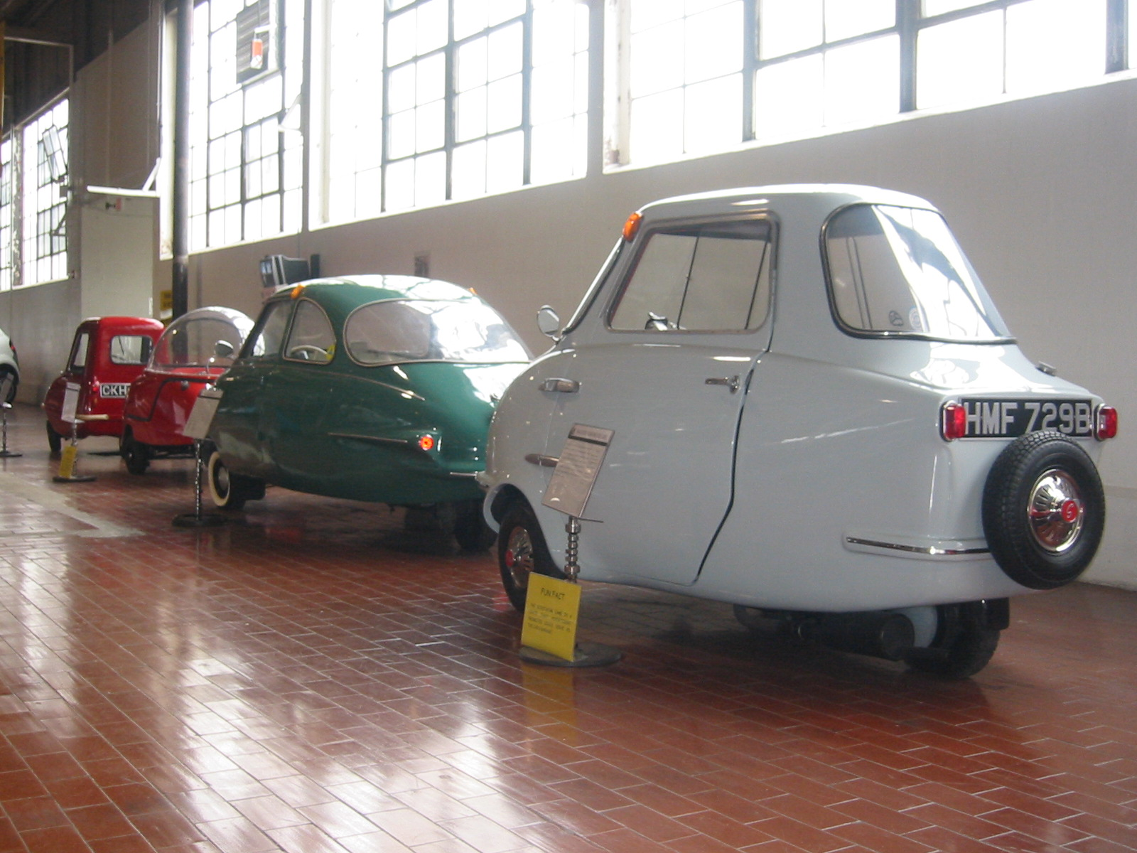 American Automobile Culture: Cars from the Lane Motor Museum Line of four microcars at the Lane Motor Museum in Nashville, Tennessee (USA) automobile, car, lane motor museum, museum, nashville, tennessee, usa, micro car, microcar, tiny, small